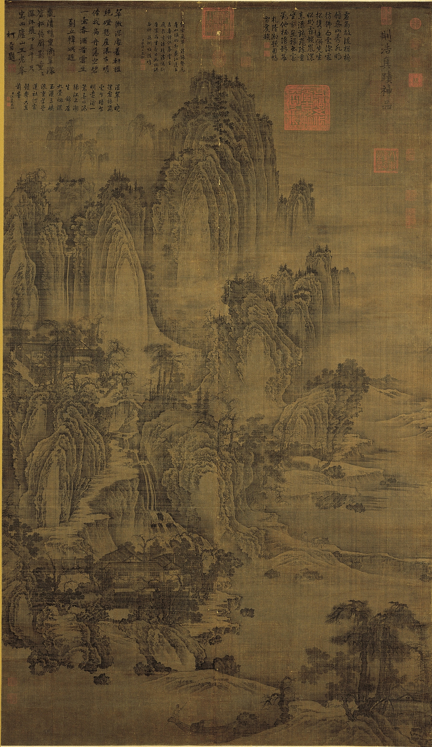 hanging scroll, light color on silk, 185.9 x 106.8 cm. Located at the National Palace Museum.